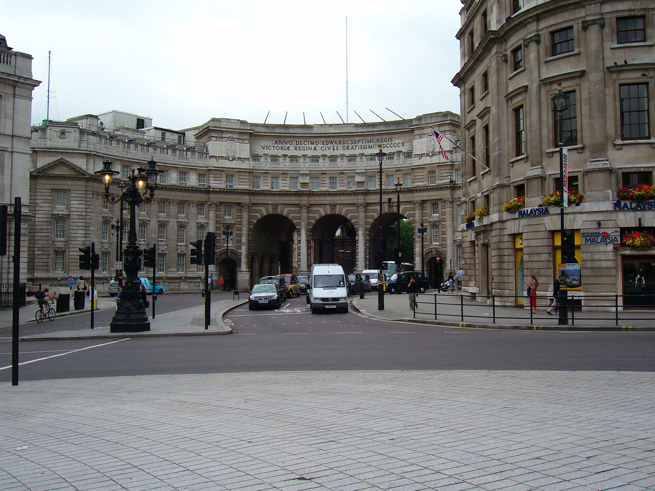 Admiralty Arch in London from Trafalgar Square. (C) 2005, Gerry Lynch.